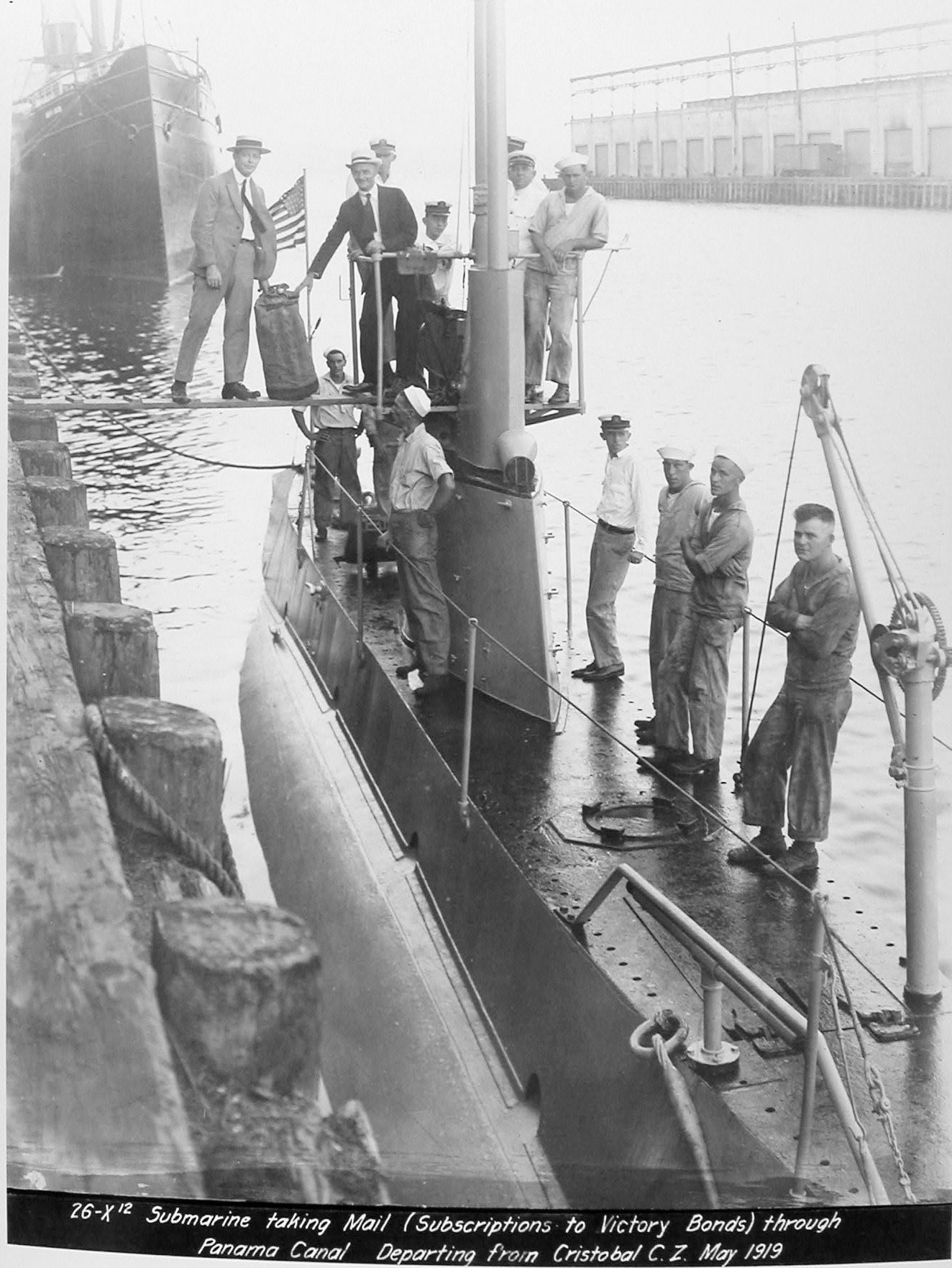 Submarine taking Mail (subscriptions to Victory Bonds) through Panama Canal Departing from Cristobal CZ May 1919